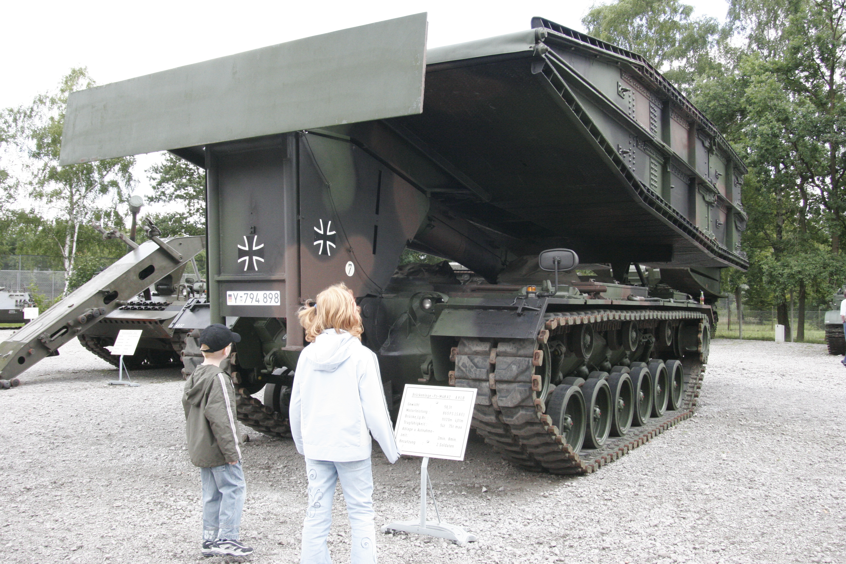 M48A2 Armored Vehicle Launched Bridge (AVLB) Patton on display at the Deutsches Panzermuseum Munster , Germany.